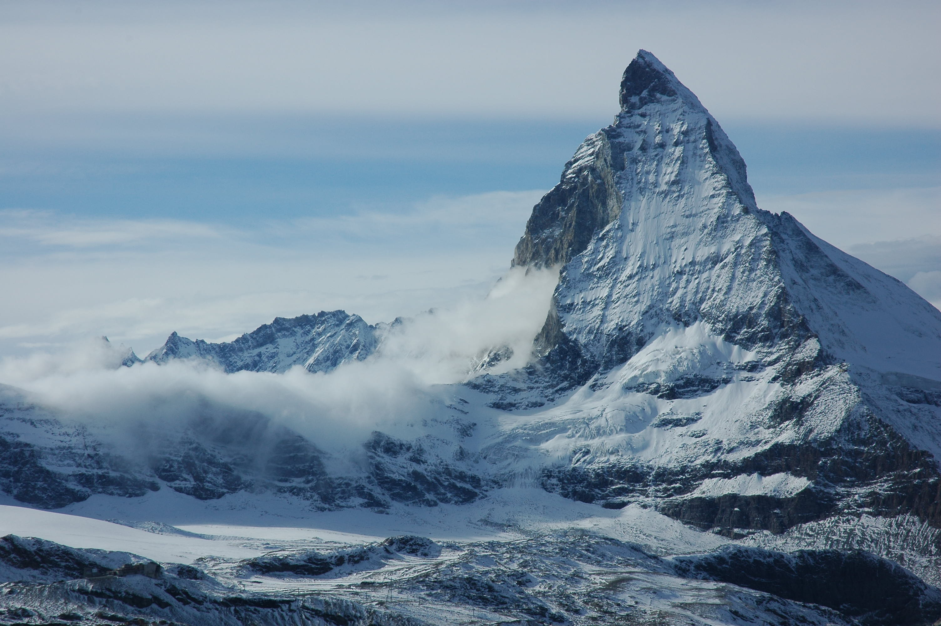 The Matterhorn